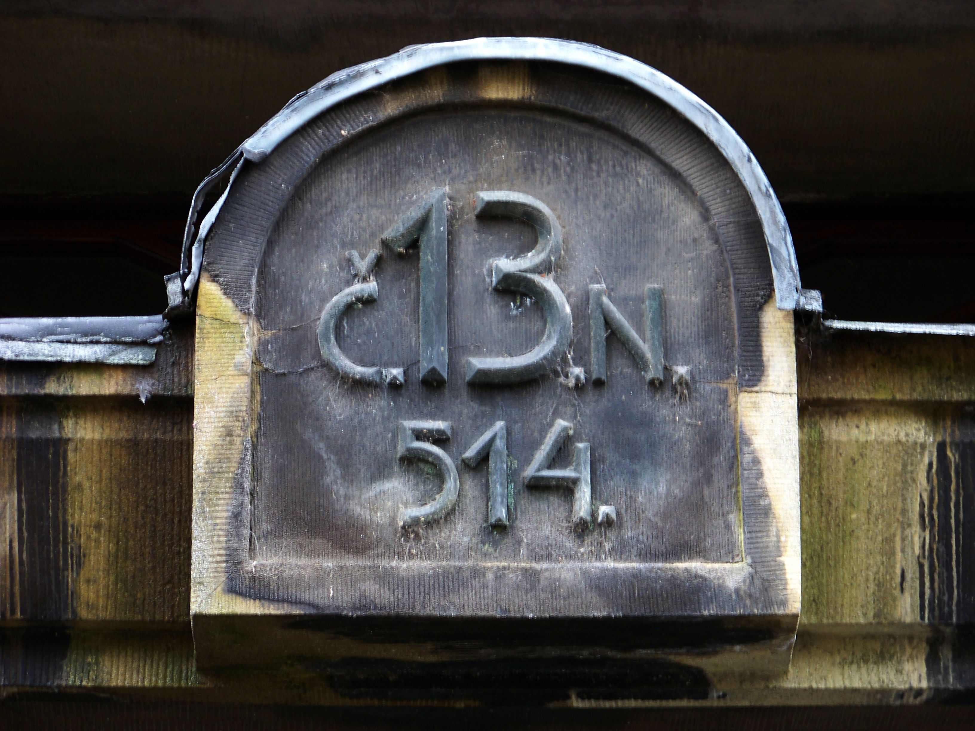 Prague-Bubeneč-Letná, the Czech Republic. Čechova 514/13.